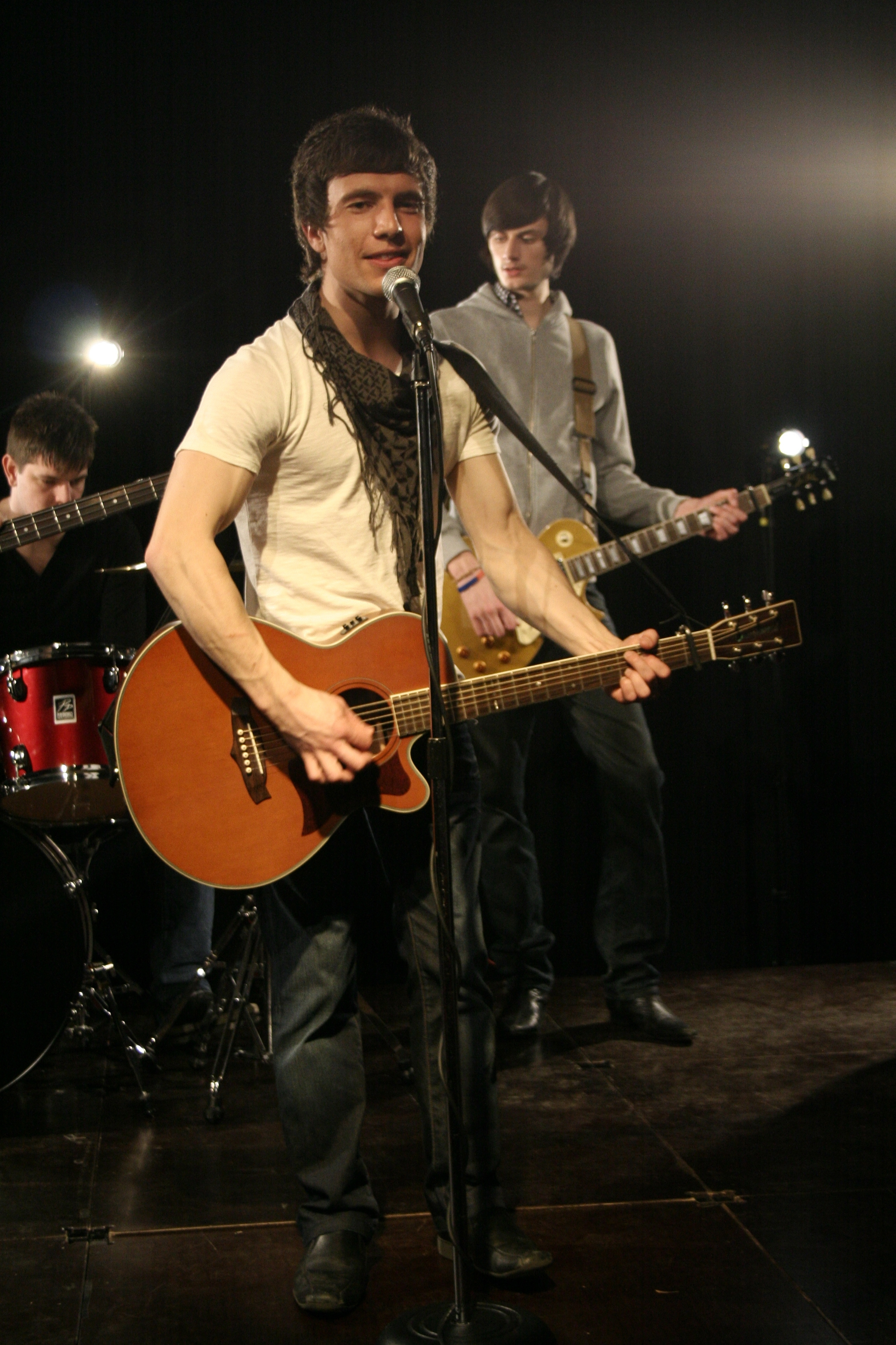 A photo during Andy Doonan's debut video shoot 'Made in Hollywood' - April 2011